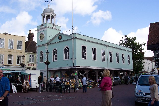 Faversham market. The market in Faversham dates back over 900 years.